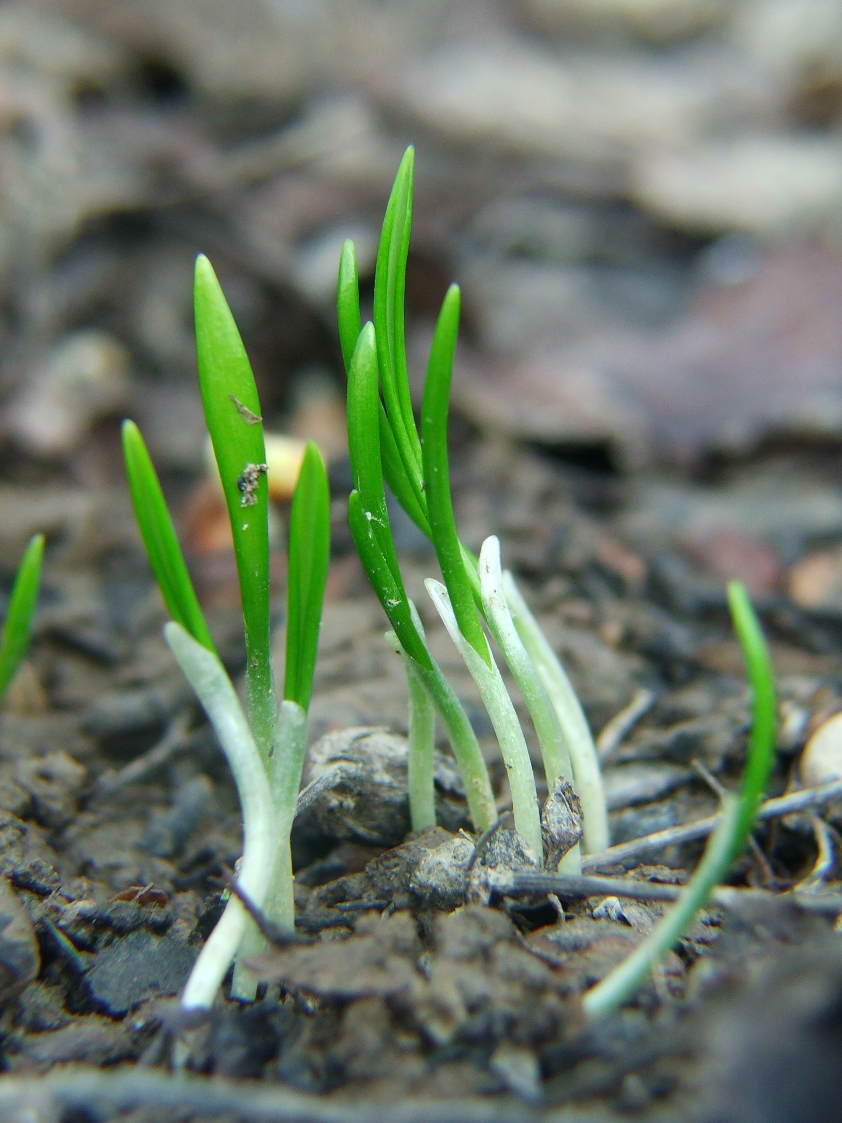 Allium ursinum seedlings.